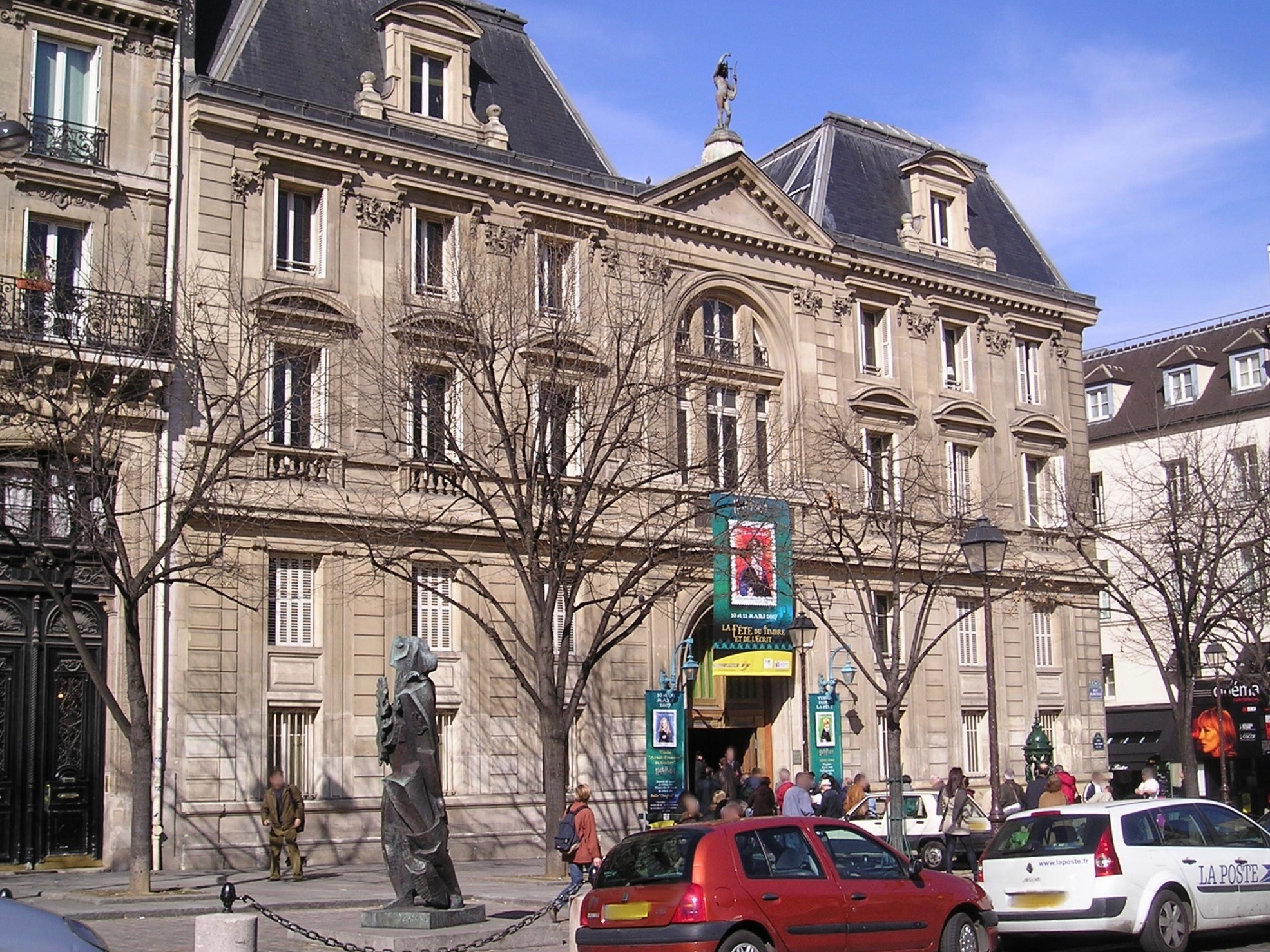 The Hôtel de l'Industrie in Paris, for Stamp's Day 2007 dedicated to Harry Potter.